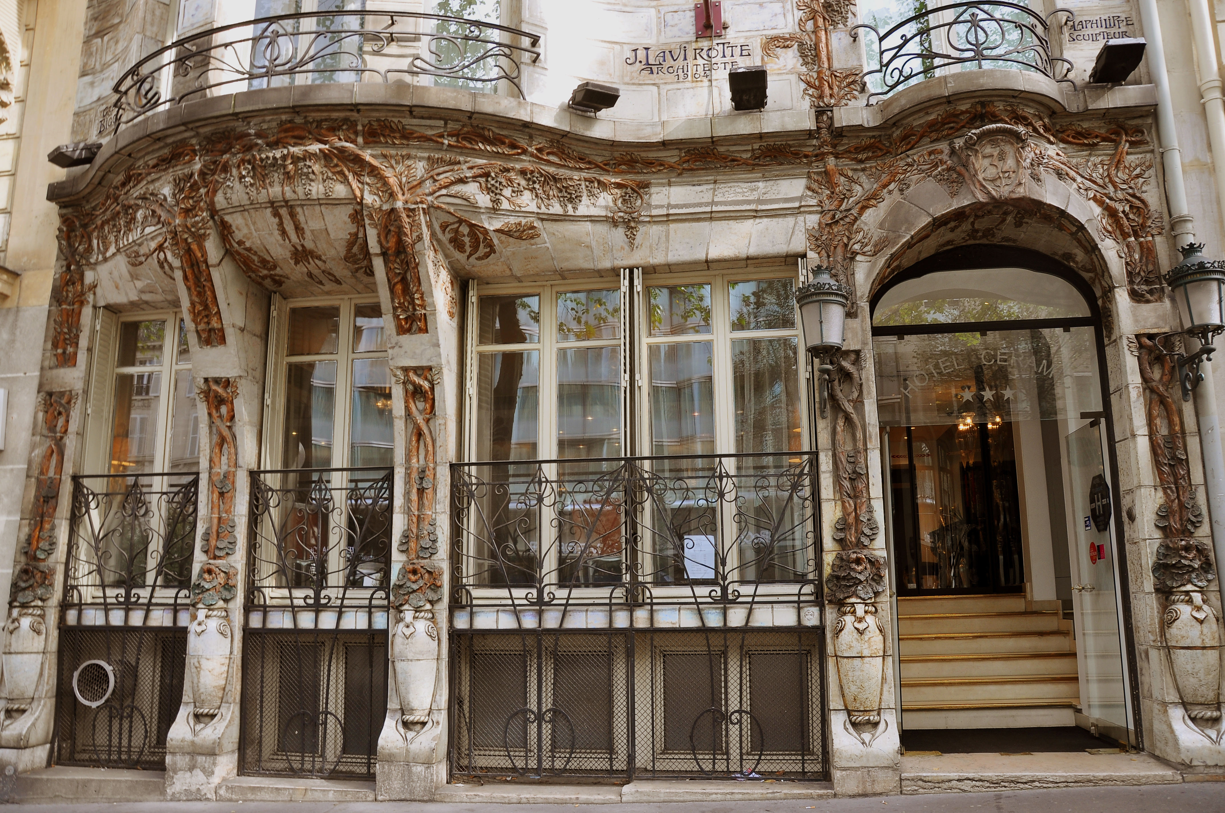 Céramic Hôtel is a building at 34 Wagram avenue in the 8th district of Paris, France. Build in 1904 by architect Jules Lavirotte and decorated by Alexandre Bigot with a ceramic facade in a Art Nouveau style.